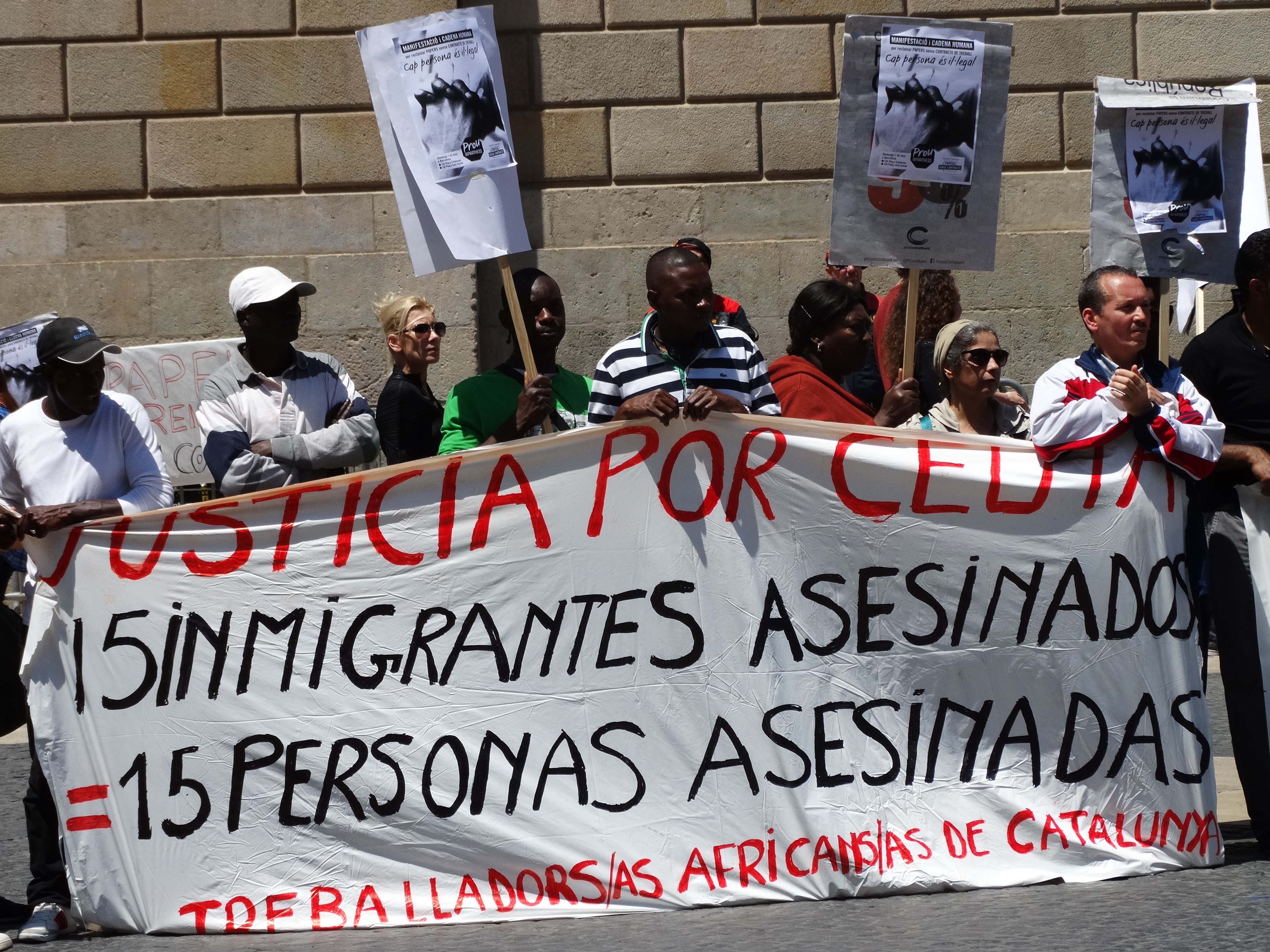 Pro-Immigrant Demonstration - Placa Jaume - Barcelona - Spain